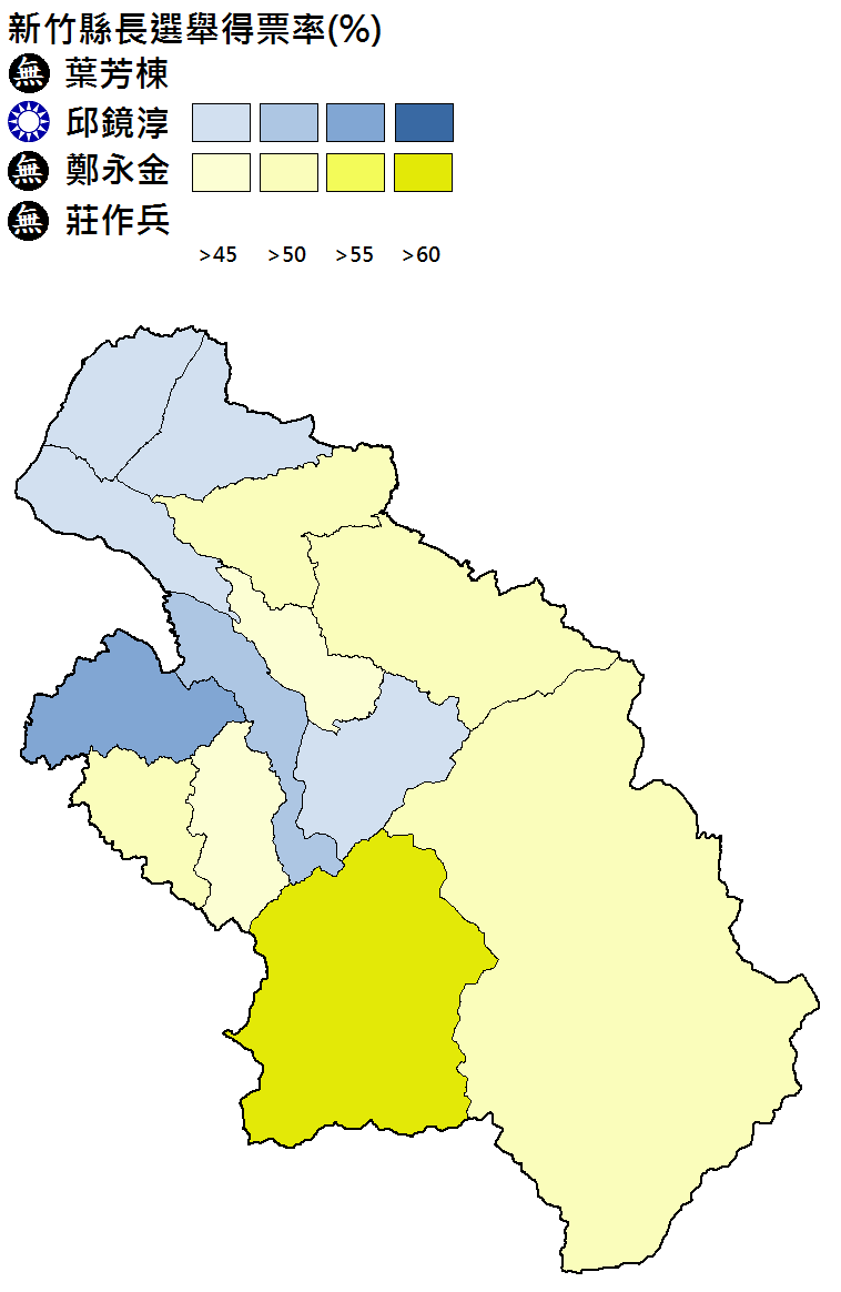 Hsinchu 2014